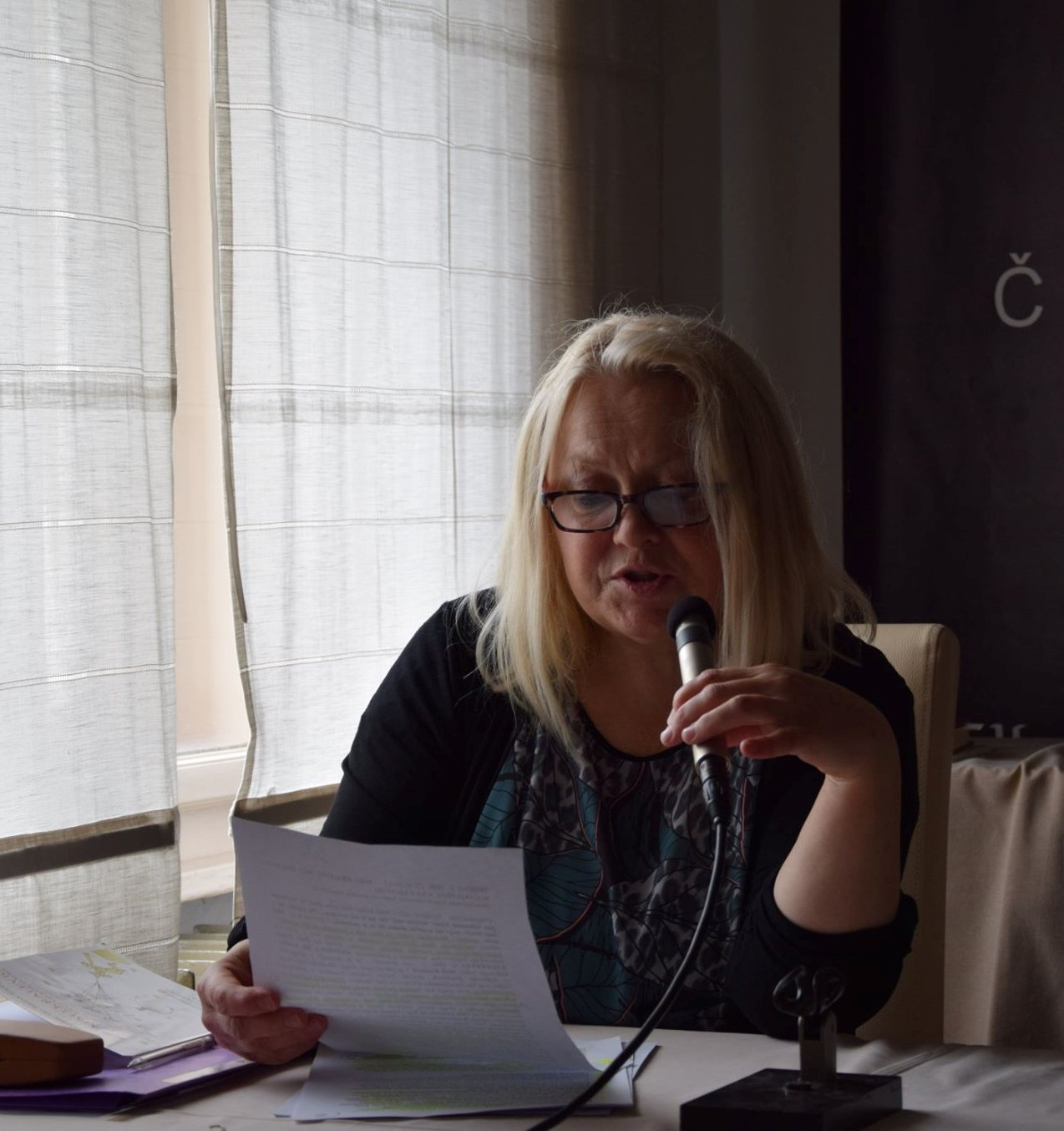 Božica Pažur, Croatian essayist, writes, editor of the magazine Kaj in Zagreb.